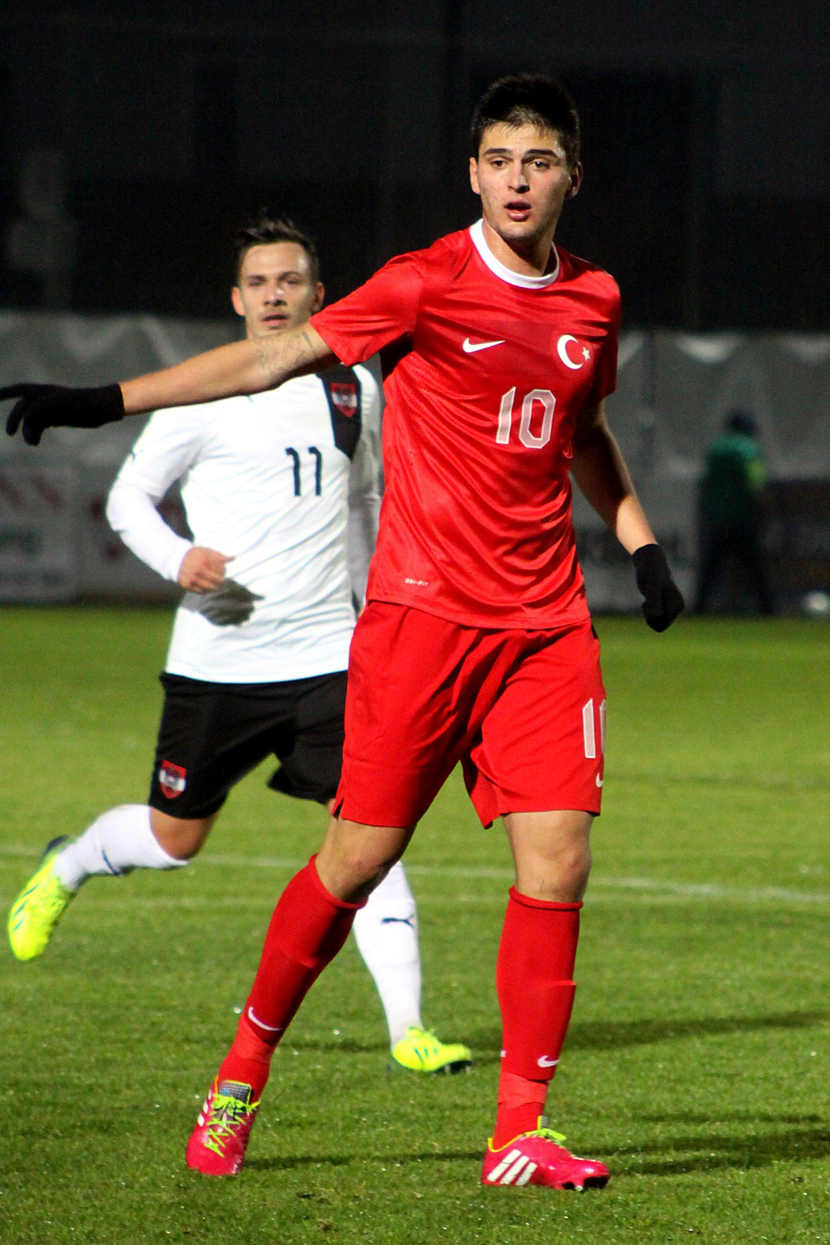 Friendly-match Austria U-21 vs. Turkey U-21 (2:0) on 2013-11-14 in Wiener Neudorf. – The photo shows Okay Yokuşlu (Kayserispor, Turkey).